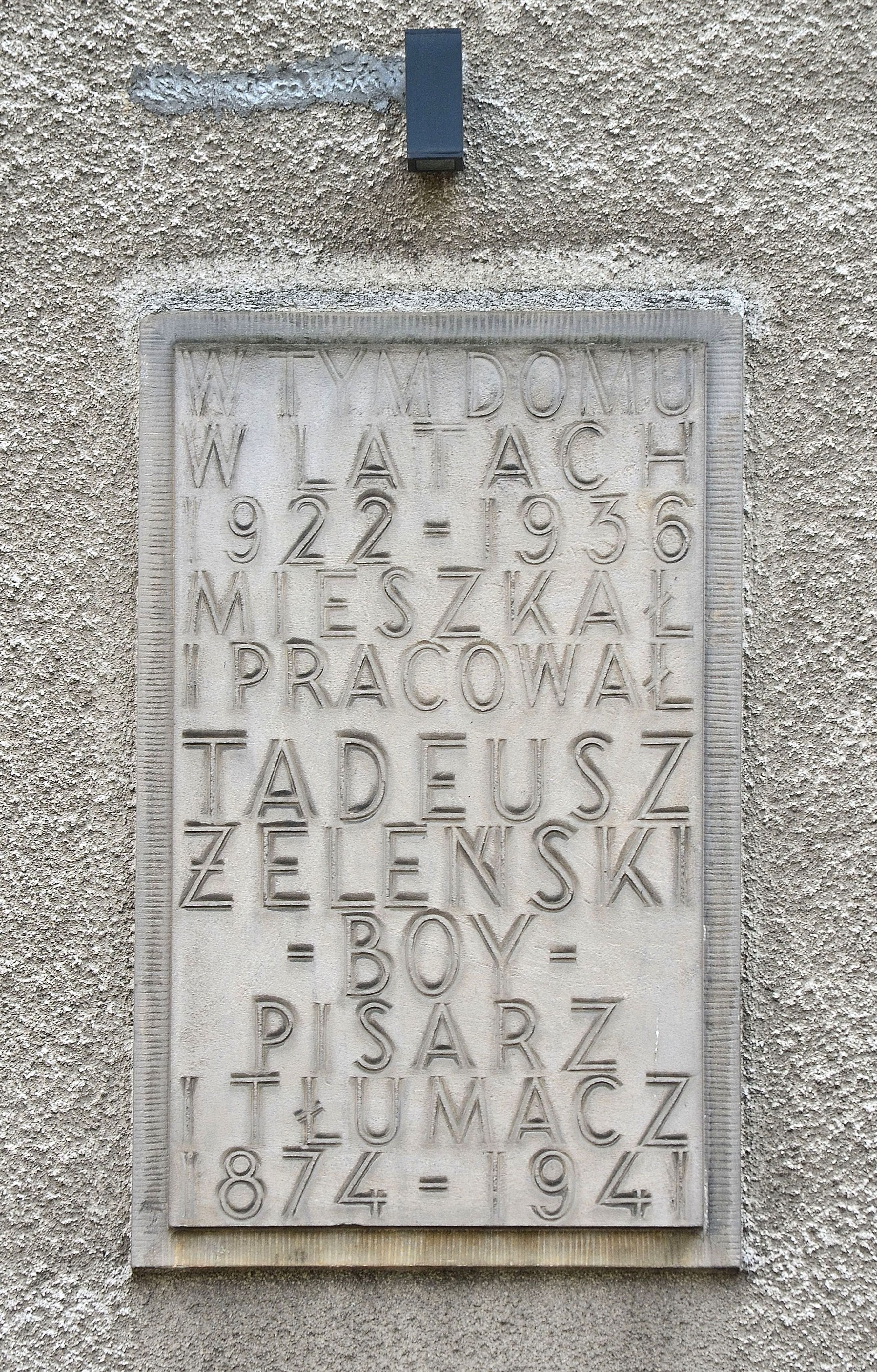 Plaque in memory of Tadeusz Boy-Żeleński at 11 Smolna Street in Warsaw